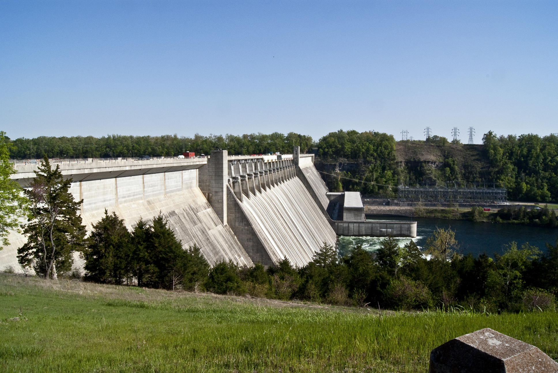 Bull Shoals Dam in Baxter County Arkansas. Seen from the north shore.